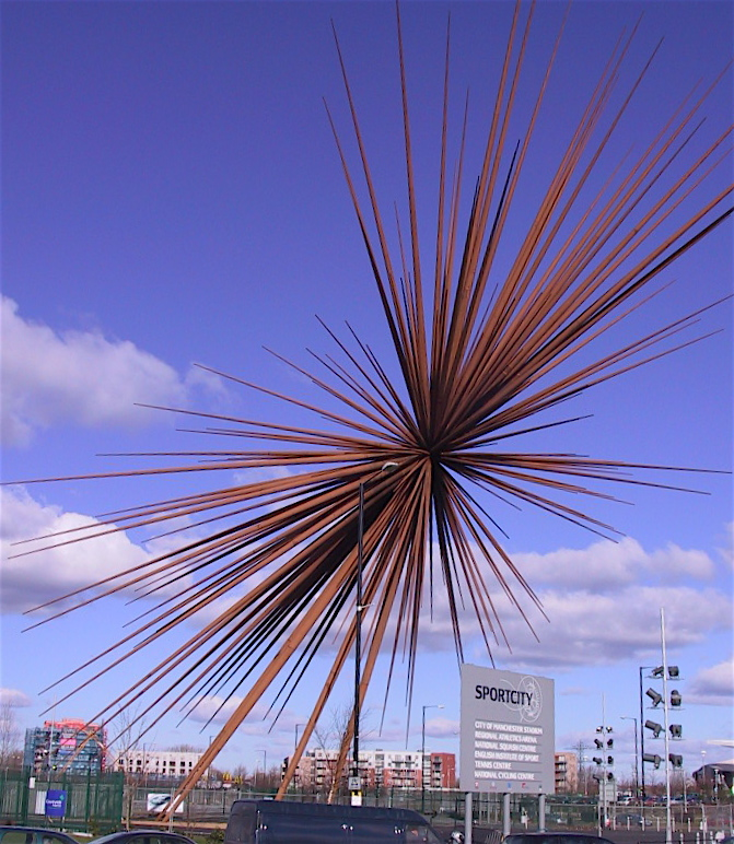 The B of the Bang, a sculpture in Manchester, UK.